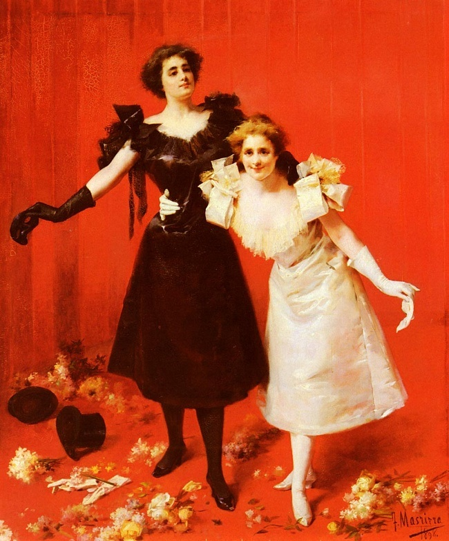 The belles of the ball